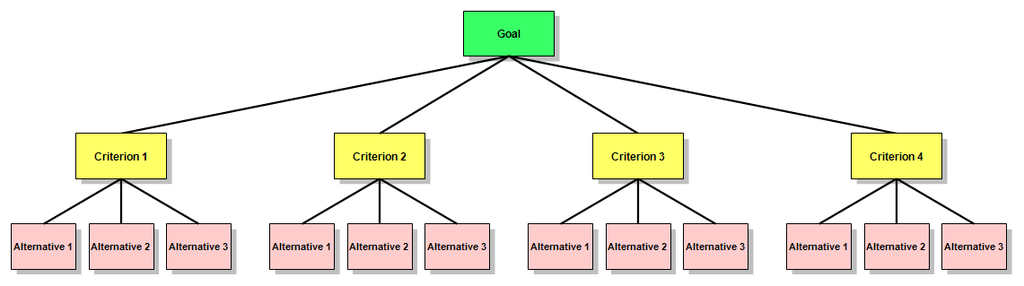 AHP Hierarchy in three levels: Goal, four Criteria, three Alternatives. Fully expanded, showing all nodes.